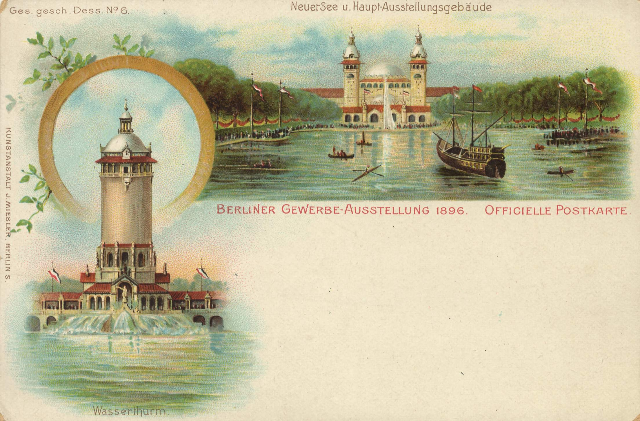 old picture postcard of Berlin industrial exhibition 1896 in Treptower Park - view of water tower and the new lake with the main exhibition building